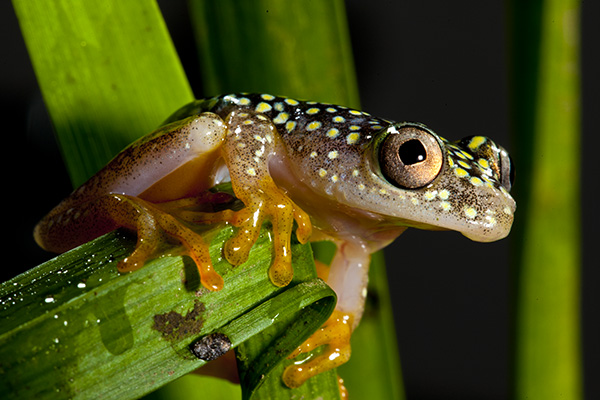 Starry Night Reed Frog (Heterixalus alboguttatus)